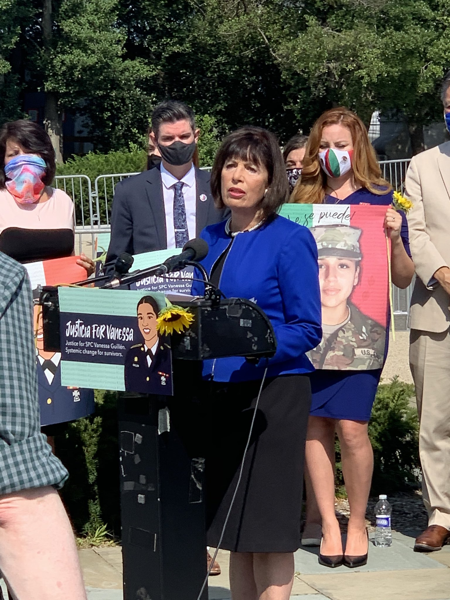 Joined ⁦@RepBrownley @RepSylviaGarcia @RepElaineLuria @RepSherrill & Minority Veterans of America in calling for overhaul of DoD sexual harassment & missing persons investigations. No more chain of command for these cases! #JusticeForVanessaGuillen